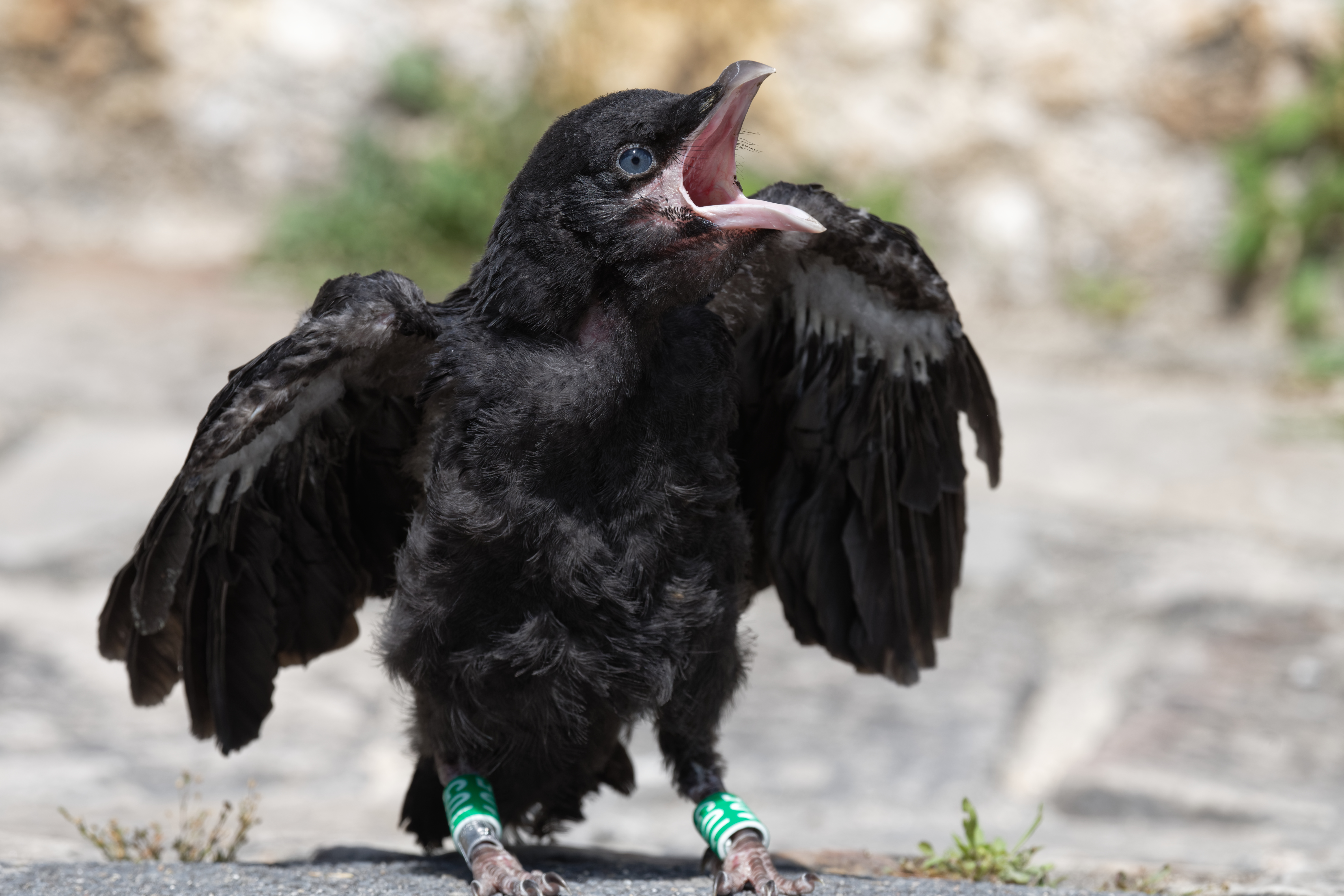 Juvenile Carrion Crow ringed green 105, aged 15–17 days, begging at the Jardin des Plantes of Paris.